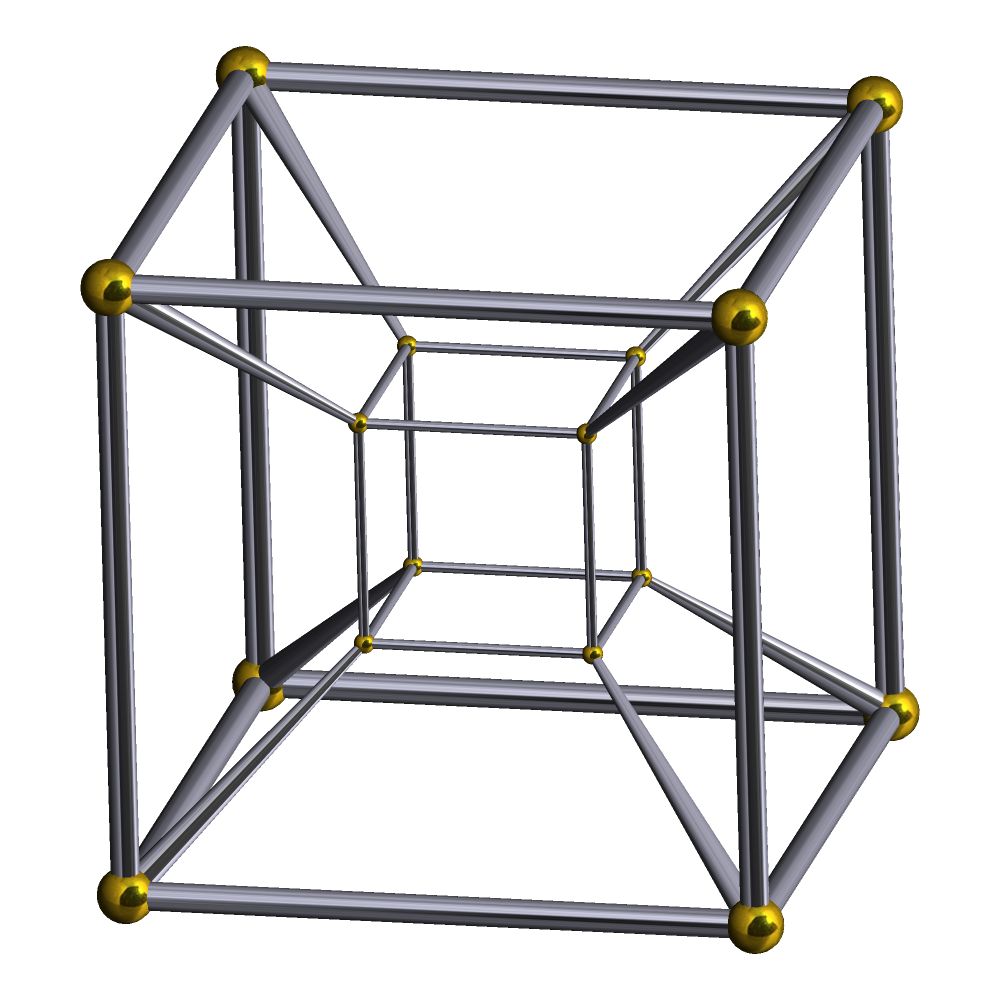 Central projection of the tesseract, a Schlegel diagram The copyright holder of this file, Robert Webb, allows anyone to use it for any purpose, provided that the copyright holder is properly attributed. Redistribution, derivative work, commercial use, and all other use is permitted. Attribution: Attribution must be given to Robert Webb's Stella software as the creator of this image along with a link to the website: A complimentary copy of any book or poster using images from the Software would also be appreciated where feasible. This work is free and may be used by anyone for any purpose. If you wish to use this content, you do not need to request permission as long as you follow any licensing requirements mentioned on this page.